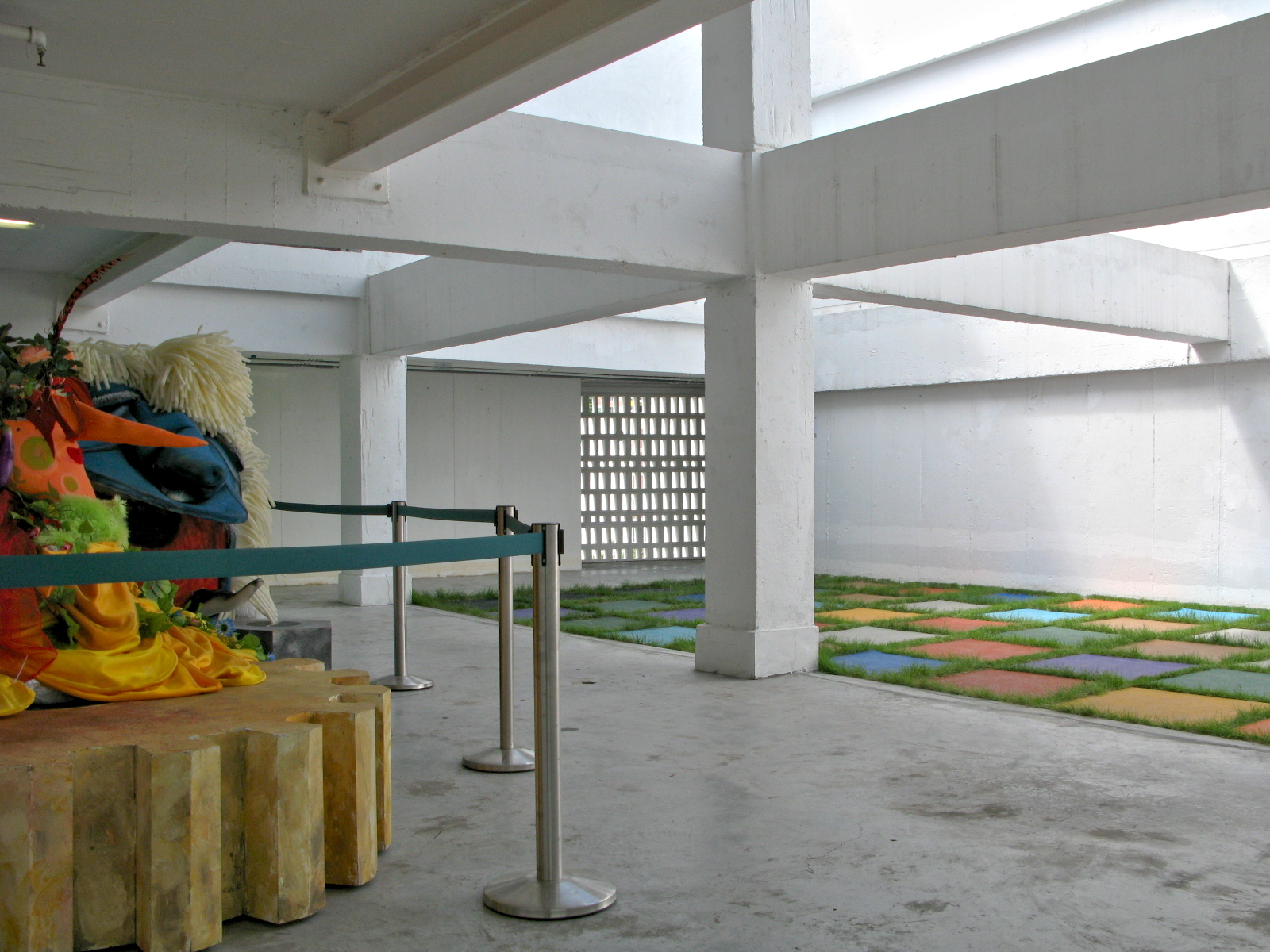 The Jockey Club Creative Arts Centre 賽馬會創意藝術中心